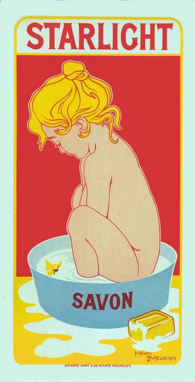 "Savon Starlight", Poster by Henri Meunier (1873-1922), Belgian designer